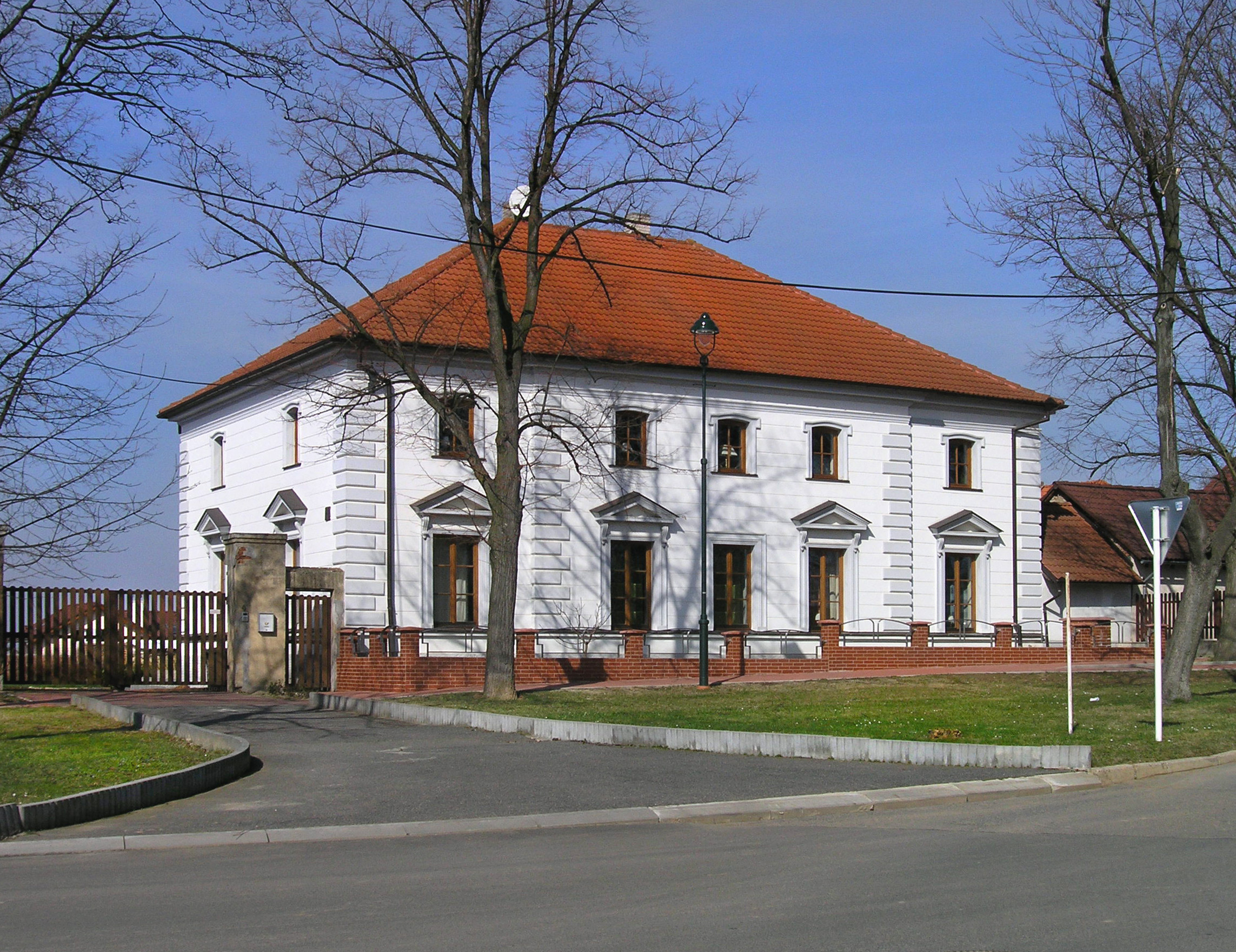 Old farm at Lipany, Prague